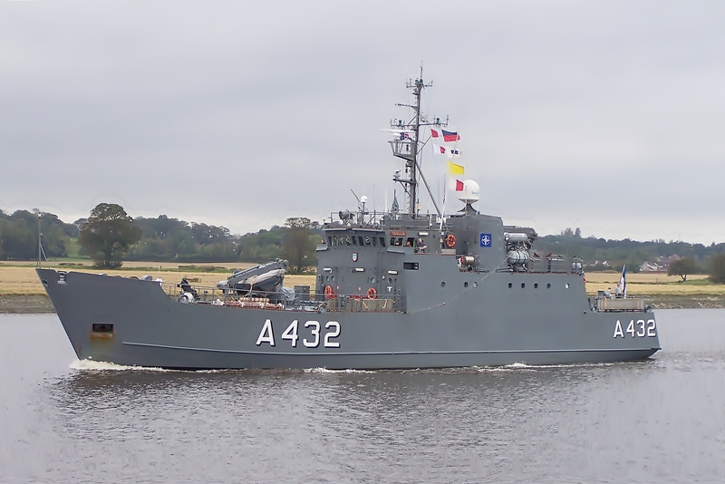 ENS Tasuja passing Clydebank on her way to KGV Dock in Glasgow, JW112 participant